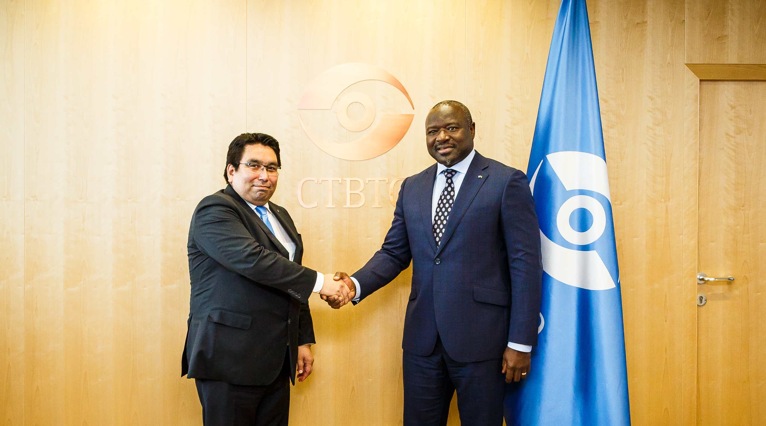 HE Vittus Qujaukitsoq, Minister for Industry, Labour, Trade and Foreign Affairs of the Government of Greenland, is paying a courtesy visit to the Executive Secretary of the Comprehensive Nuclear-Test-Ban Treaty Organization, on Monday, 26 September 2016.